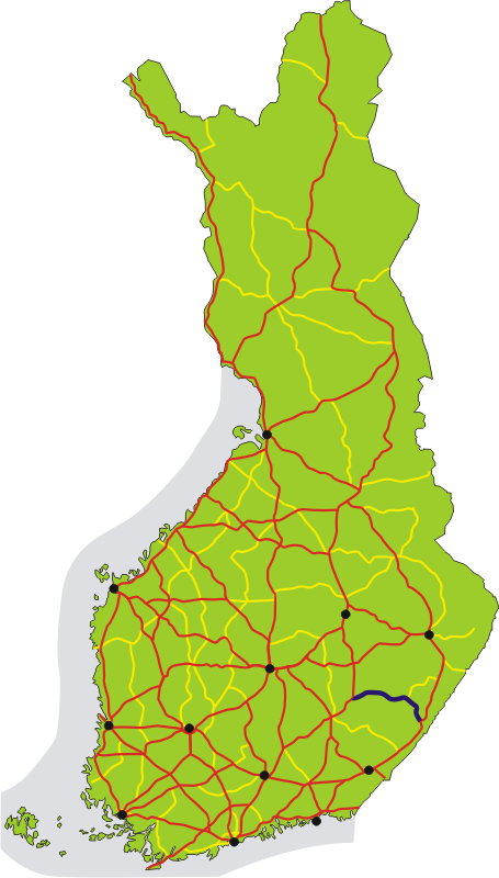 Map of the main road 14 in Finland, shown in dark blue. The other 1st class main roads (numbers 1–29) are red, 2nd class main roads (numbers 40–98) yellow. Black dots show the 12 biggest urban areas.